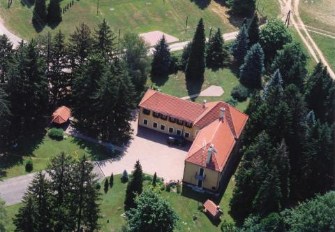 Nova Hungary aerialphotography Nova-Olgamajor, Batthyány Mansion